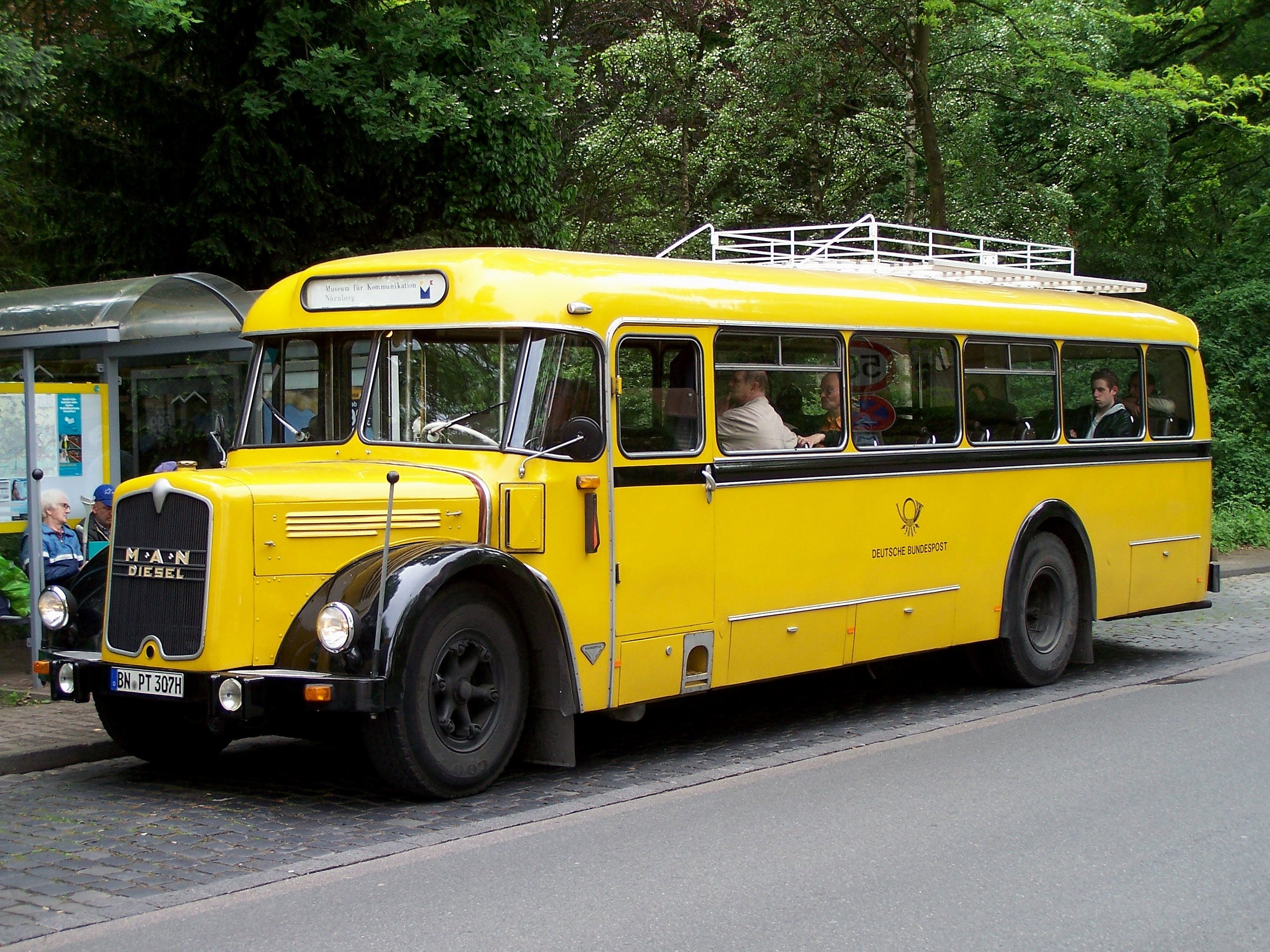 Historical post bus manufactured by MAN on an extra tour in Frankfurt am Main--Schwanheim